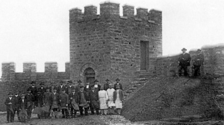 Members of the Suebian Alb ramblers society (Albverein) in 1911 in front of the Roman castle Köngen, which was uncovered by General Eduard von Kallee.